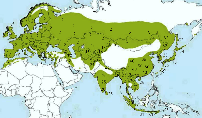 Distribution map of subspecies of Parus cinereus, Parus major, Parus minor 1-19: Parus major 20-31: Parus cinereus 32-43: Parus minor